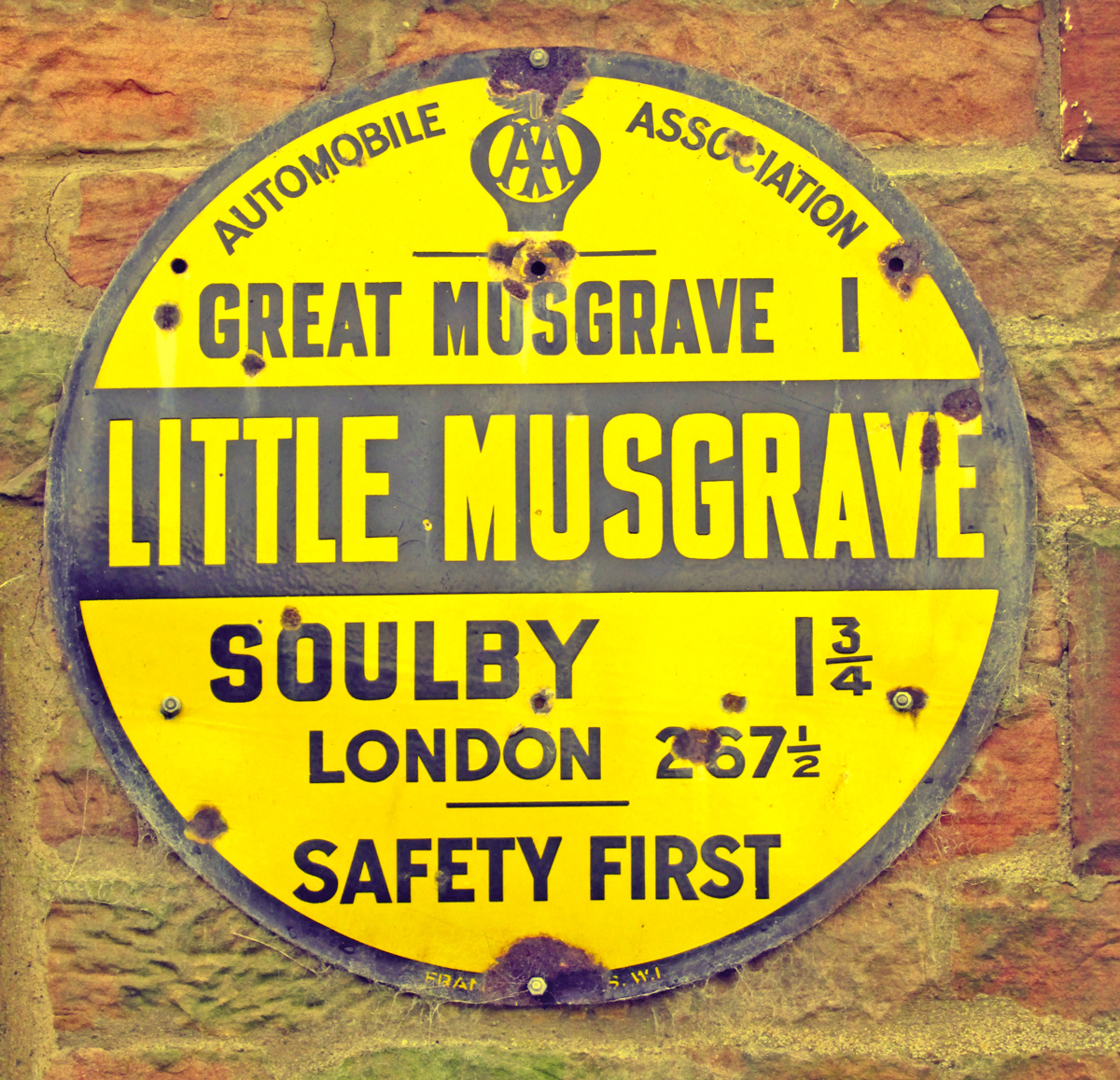 Automobile Association road sign for Little Musgrave from the 1930s preserved on the wall of a building in the village